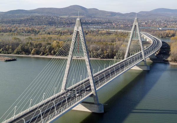 Megyeri híd, Hungary, aerial photography